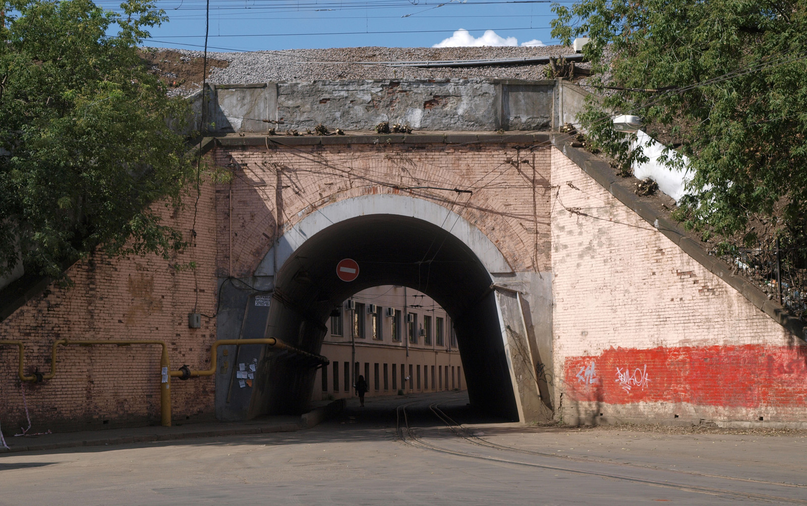 Syromyatnichesky Lane (proezd, the one without number), Moscow — tram tunnel under the elevated railroad, with an unusual twisted tram track.